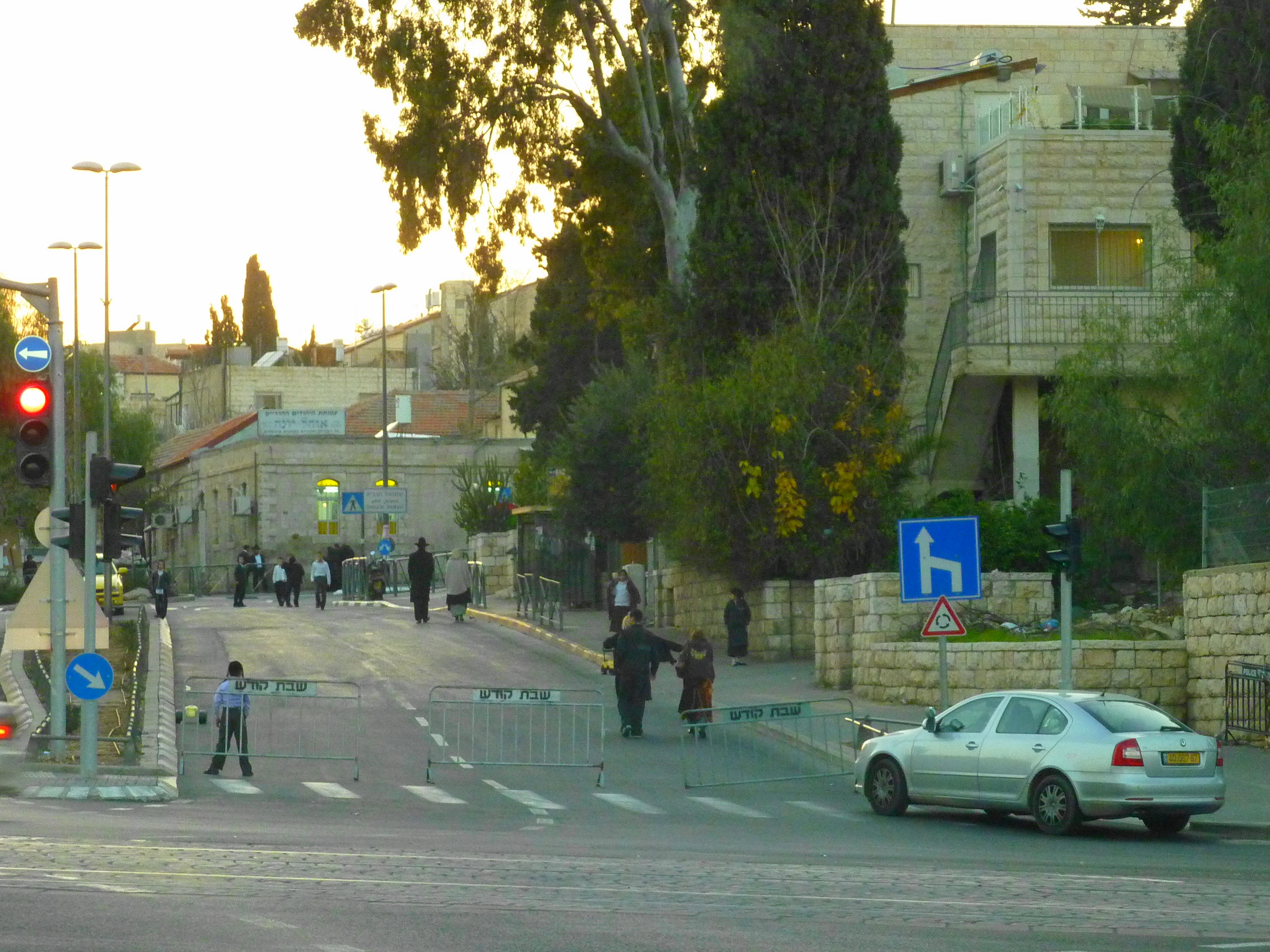 Road closure on Shabat